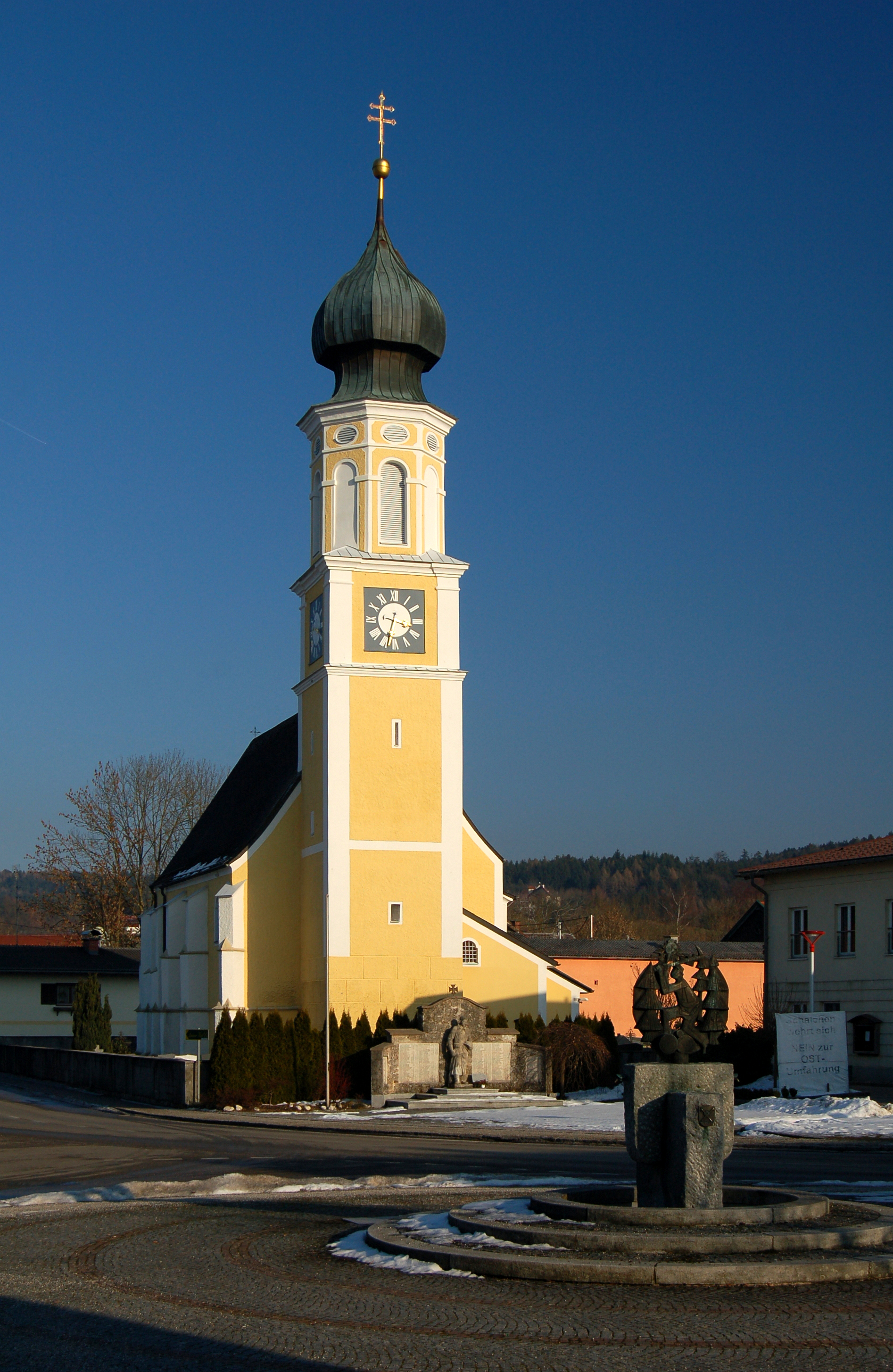 Parish church St. Jakobus d.Ä. (Saint James the Greater) in Schalchen, Upper Austria. In the foreground the new well, built in 1981.